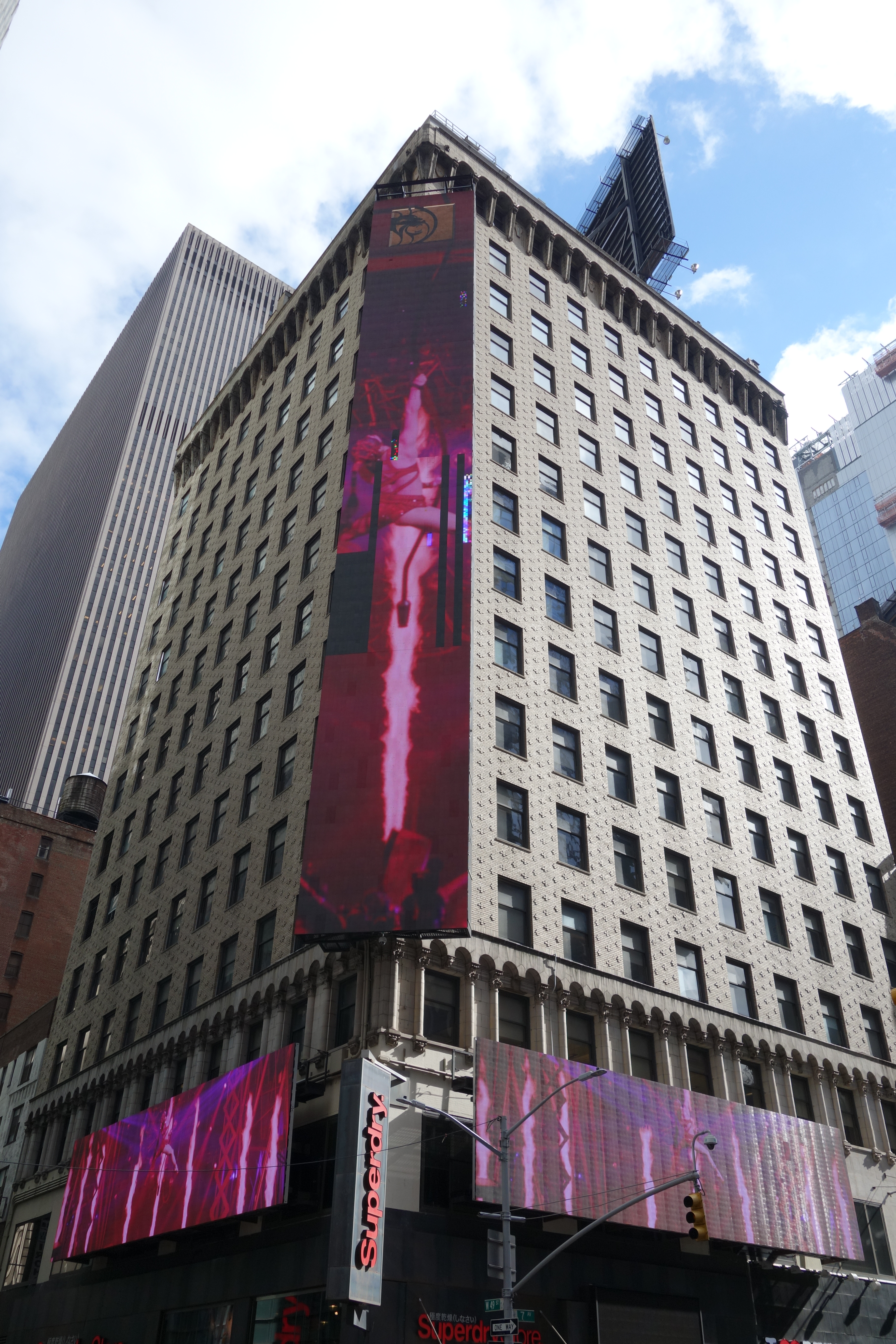 729 Seventh Avenue, at the southeast corner of 49th Street and 7th Avenue in Times Square, Manhattan.